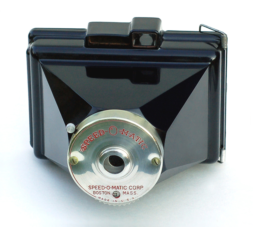 The Speed-O-Matic is an instant-picture camera, manufactured in 1948 by the Speed-O-Matic Corporation of Boston. The process required to make pictures with this camera was actually anything but speedy. You had to load the film pack into the camera, shoot the first picture, then remove the film pack, flip it, reload it, and shoot the second picture. At this point, you'd remove the film pack, plug it into a development tank (provided in the camera kit), and transfer the exposed paper sheets into the tank via a sliding metal injector. Next, you fill the tank with "solution 1", wait two minutes, empty the solution, and rinse the tank with cold water. Fill with solution 2, wait one minute, rinse. Fill with solution 3, wait 45 seconds, rinse. Fill with solution 4, wait another minute, and rinse once again. This was required every two shots! It probably seemed fast though, because of the cool Speed-O-Matic font on the front!